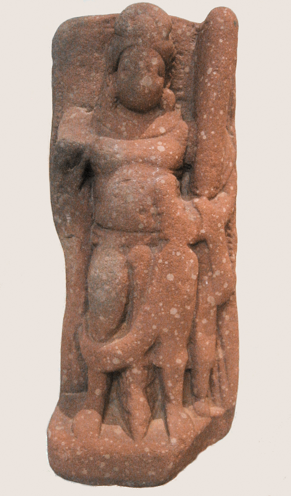 Mathura Yaksa. 1-2nd century. Kushan period. Victoria & Albert Museum.